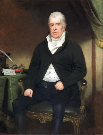 Portrait of Thomas Assheton-Smith. Welsh business manand later Member of Parliament for Caernarvonshire.